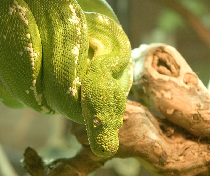 Green Tree Python.